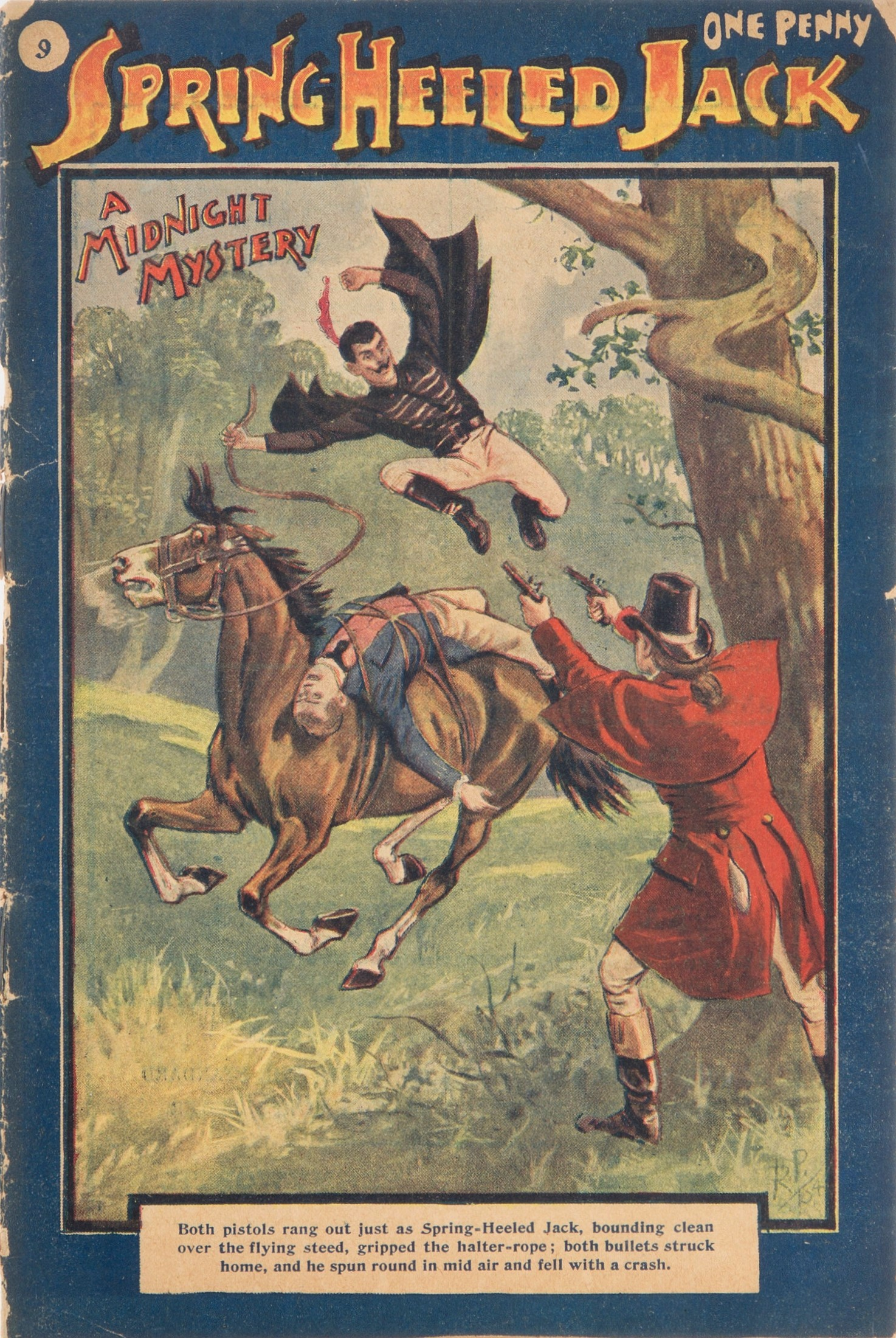 Spring Heeled Jack as depicted by an anonymous artist - Cover of an english penny dreadful (1904)